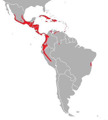 Map of the natural distribution of the genus Conostegia (Melastomataceae)